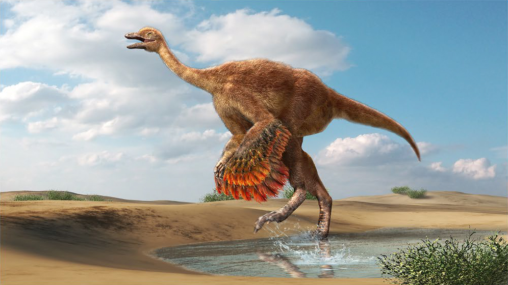 Restoration drawing of Aepyornithomimus tugrikinensis. Illustration is drawn by Mr. Masato Hattori.